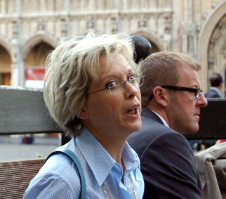 thumb|Confrontation.png. One of the more embarrassing aspects of street photography: being caught. Cropped from the above thumbnail. Taken by me, User:^pirate.